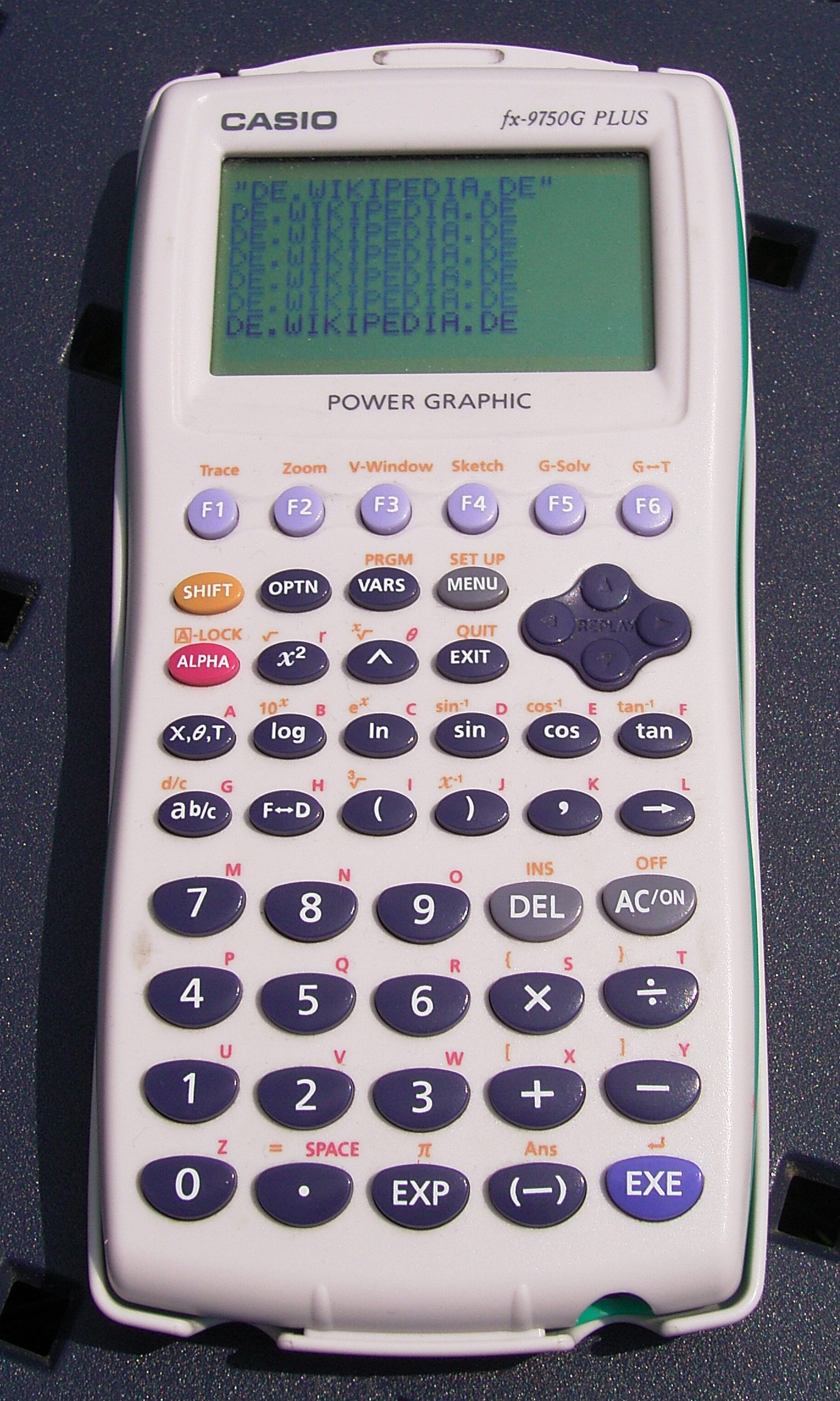 Casio fx-9750G PLUS Calculator